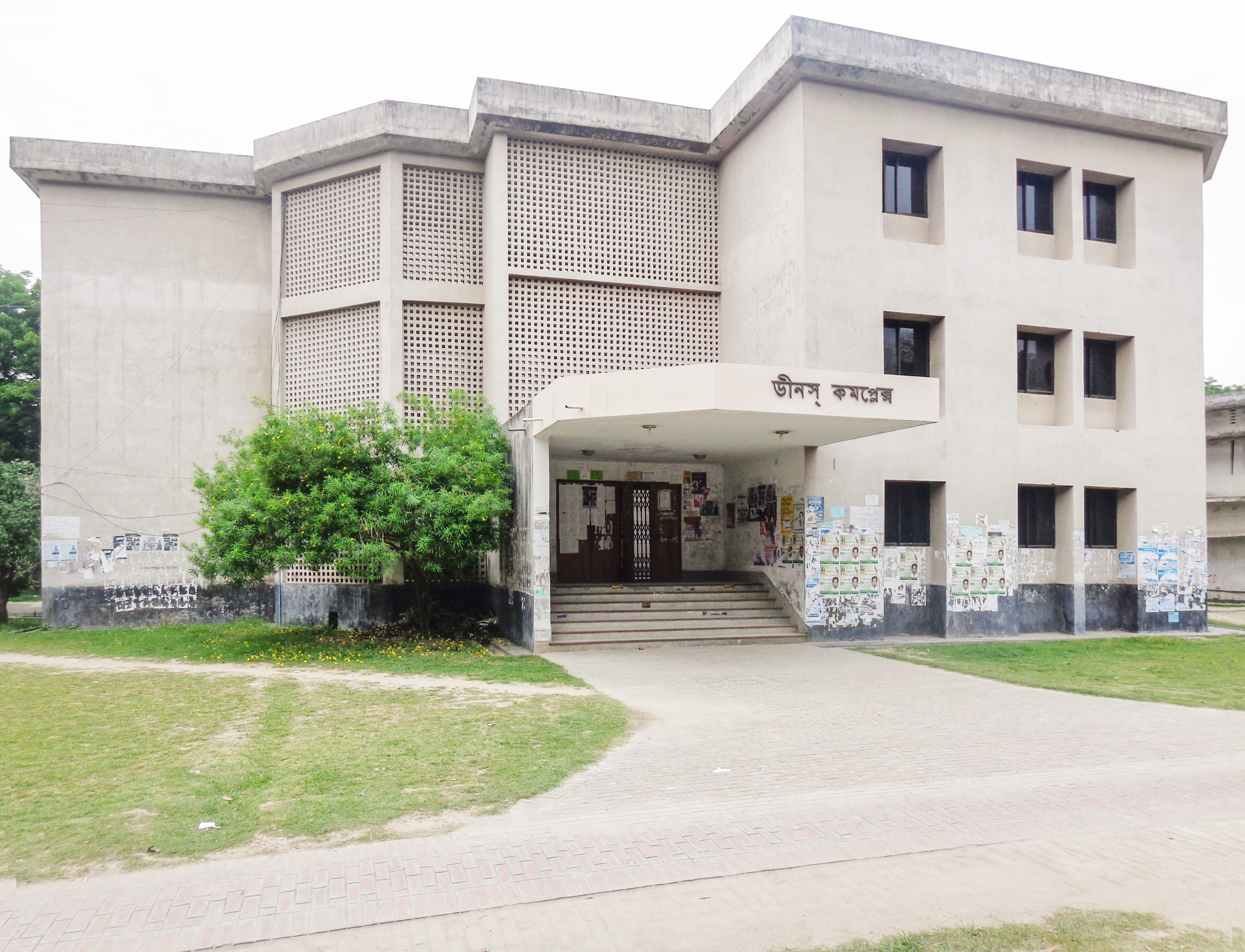 Dean's Complex, University of Rajshahi